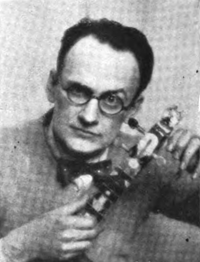 Bobby Edwards, artist and songwriter, with one of his handmade ukuleles